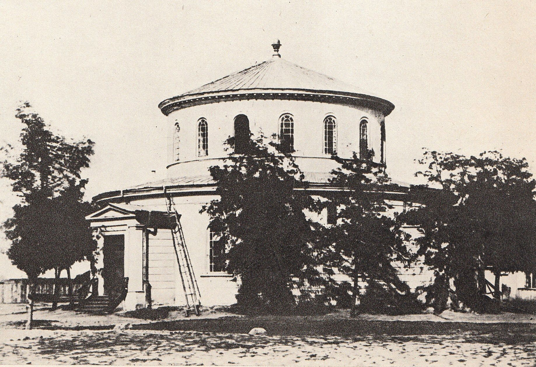 Praga Synagogue in Warsaw